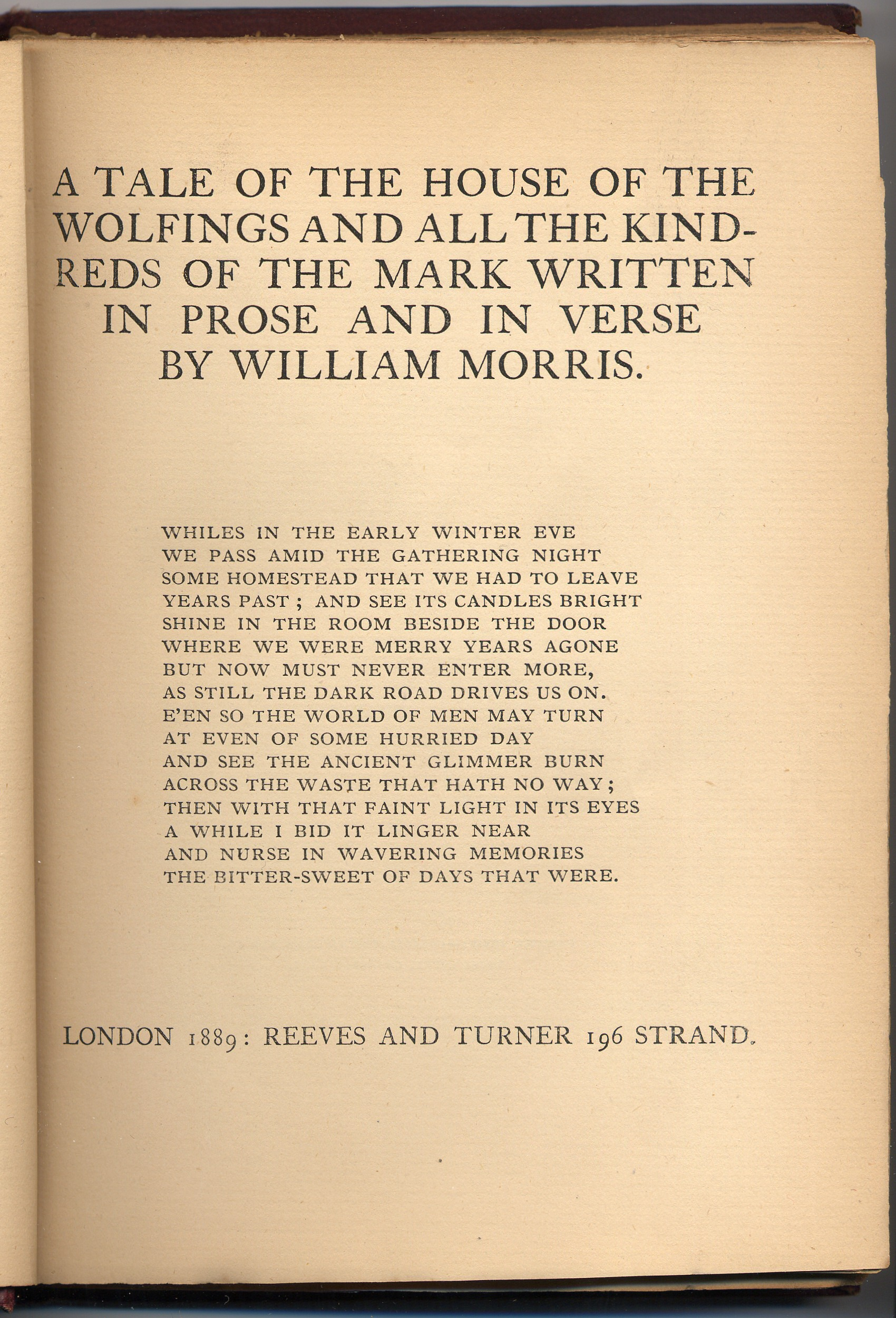 Scan of First Edition Book. A tale of the house of the Wolfings and all the kindreds of the mark written in prose and in verse by William Morris. London 1889: Reeves and Turner 196 Strand. sq. 8vo. red cloth. paper label.